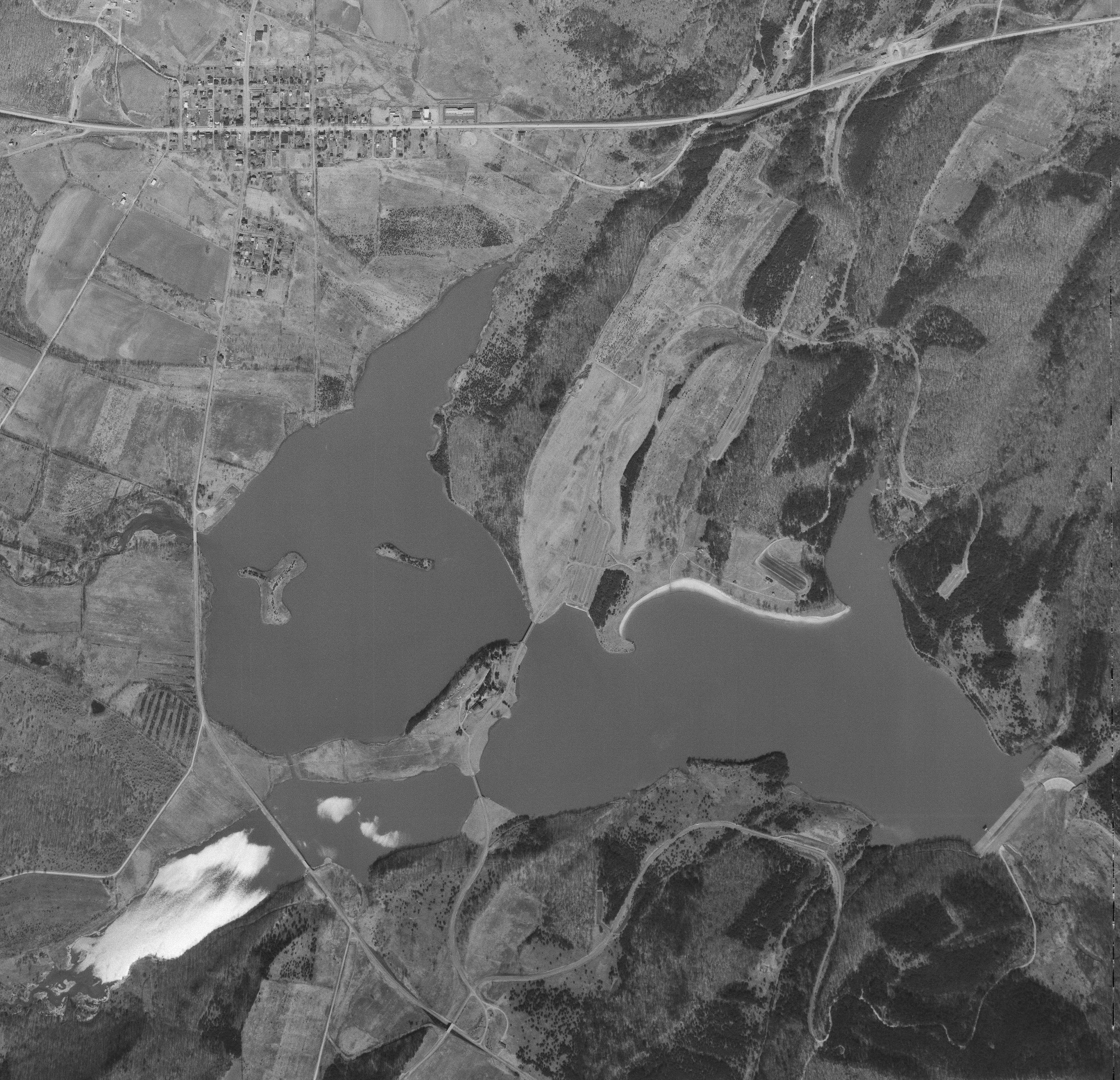 Air photo of Shawnee Lake, within Shawnee State Park, Bedford County, Pennsylvania, in March 1966. The town of Schellsburg is in upper left. The white coloration in lower left is the reflection of sunlight.